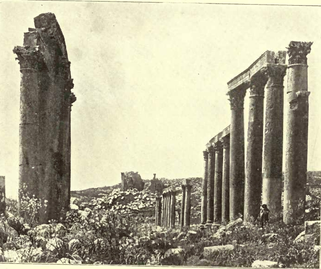 Jordan Jerash 1906